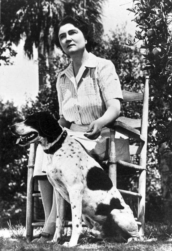 Local call number: Rc07662 Title: Marjorie Kinnan Rawlings with her dog: Cross Creek, Florida Date: 194-. Physical descrip: 1 photoprint: b&w; 8 x 10 in. Series Title: (Reference collection.) Repository: State Library and Archives of Florida, 500 S. Bronough St., Tallahassee, FL 32399-0250 USA. Contact: 850.245.6700. Persistent URL